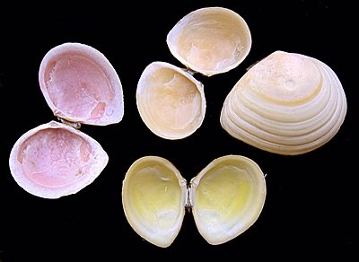 Macoma balthica; Marine bivalved shell from the North Sea.